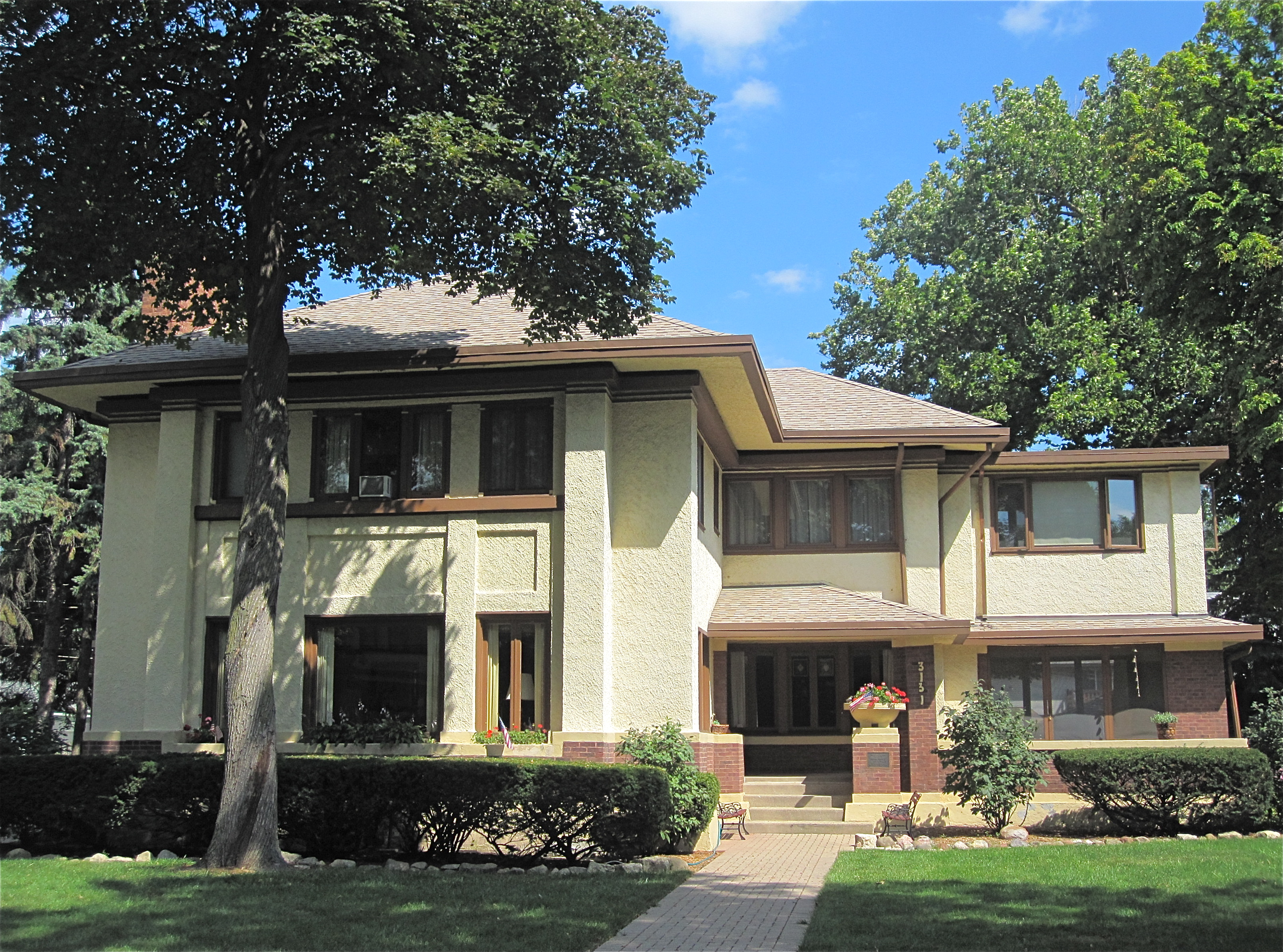 Arthur J. Dunham House (1907). Berwyn, IL. Architects: Tallmadge & Watson.